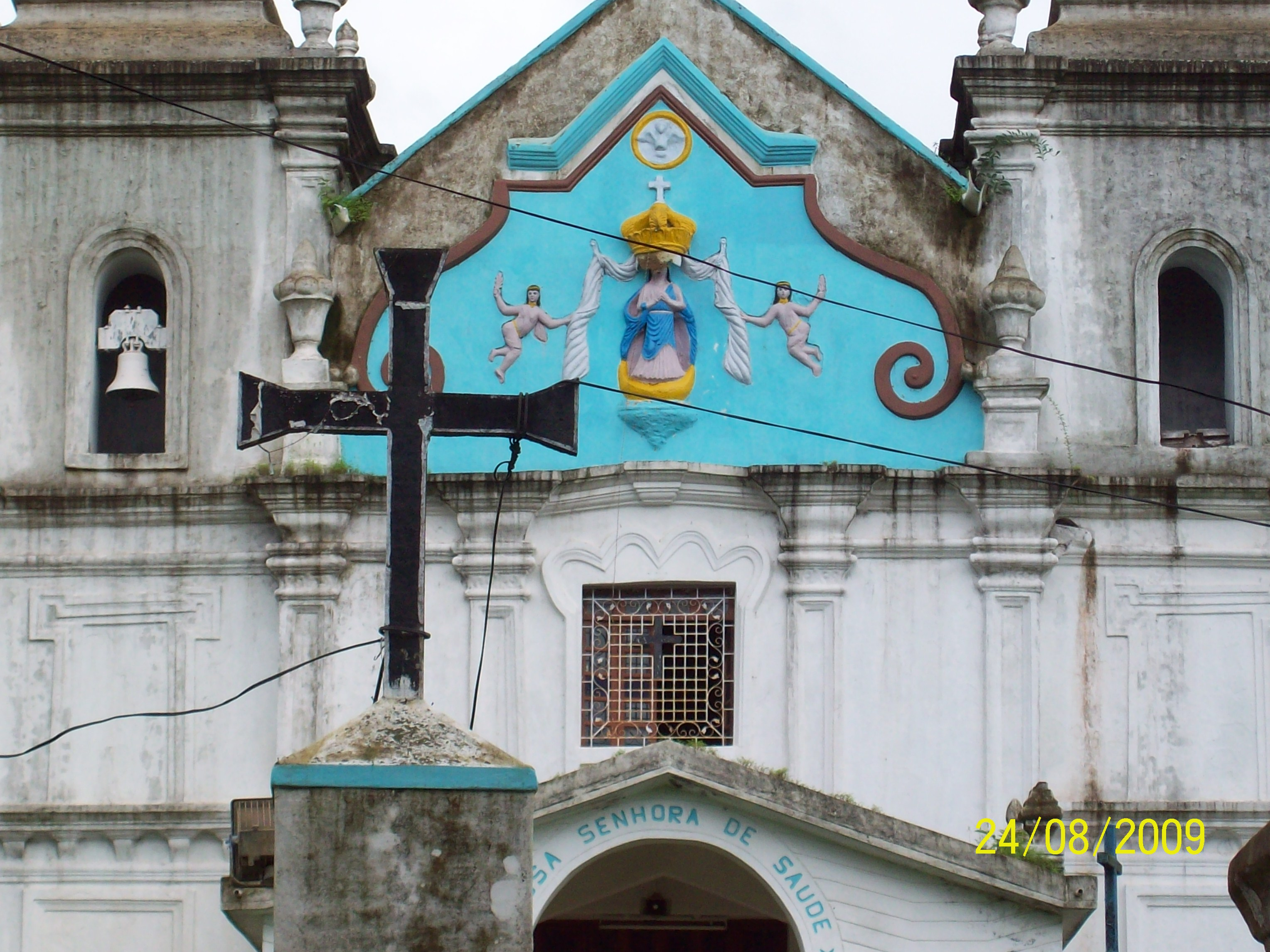 Church in Goa,- Bicholim North Goa